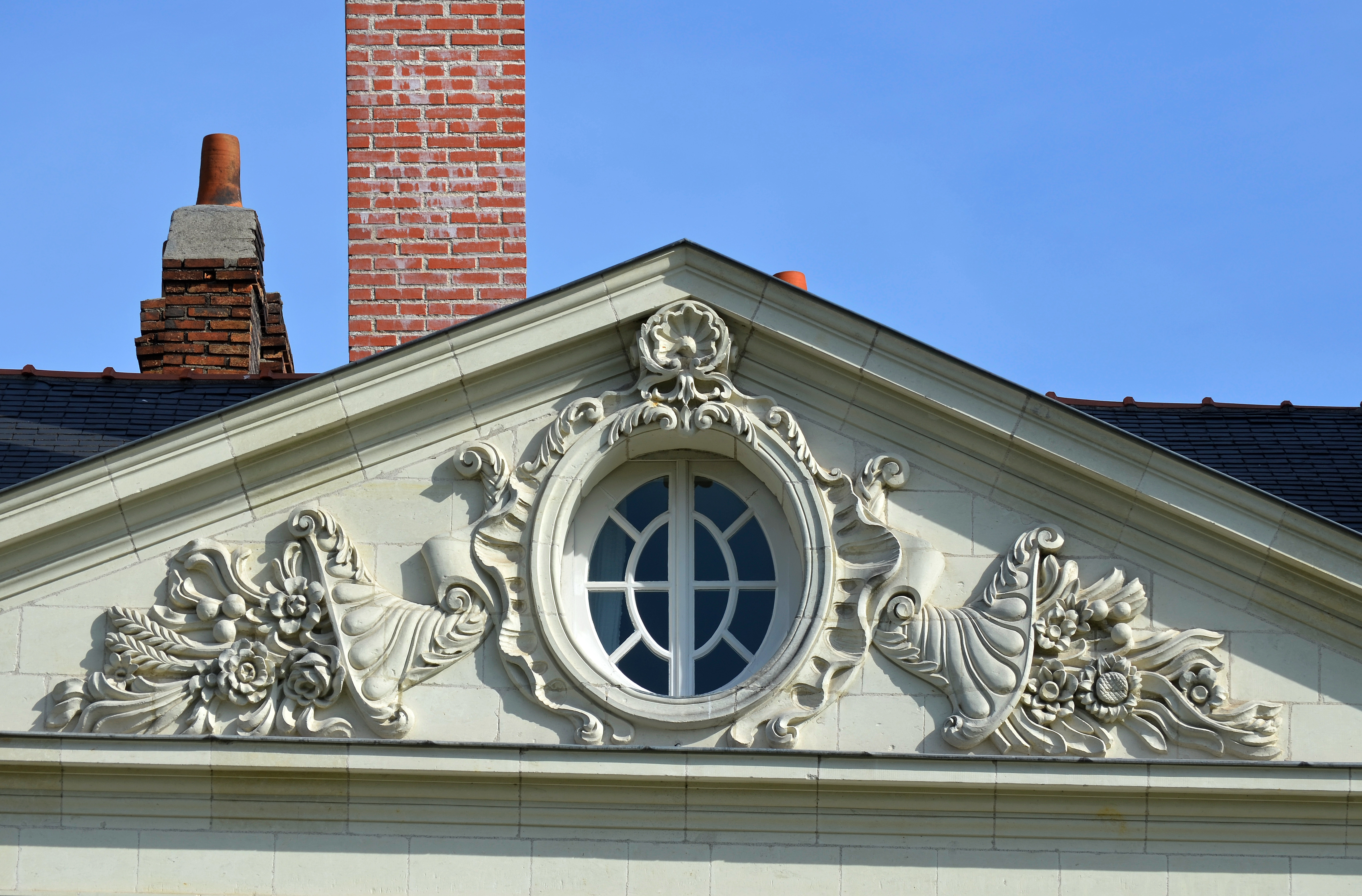 Pediment of Perraudeau building - 13 Turenne quay, Nantes, France